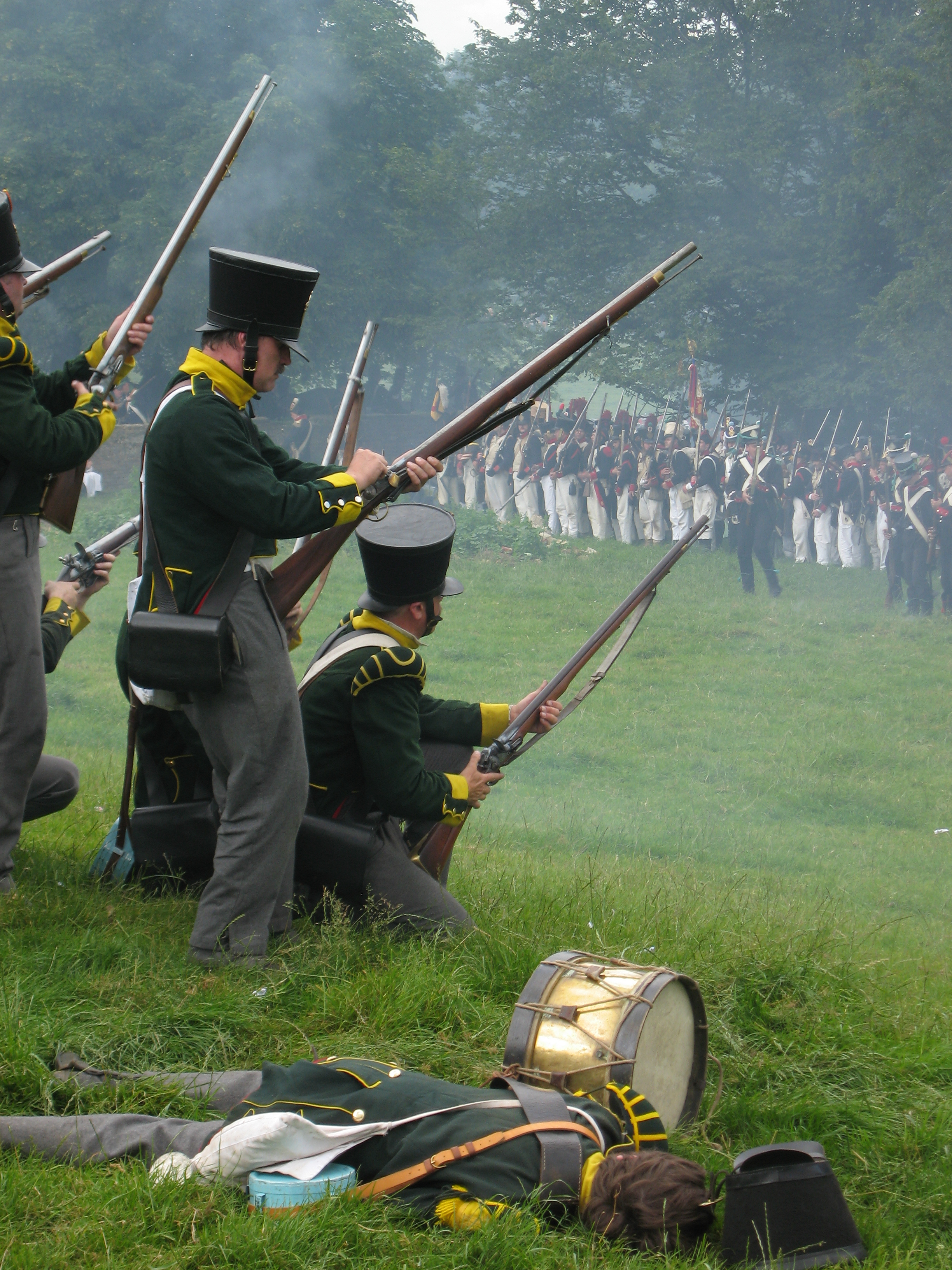 the Battle of Waterloo, 1815 - Historical reenactment in Waterloo, Belgium